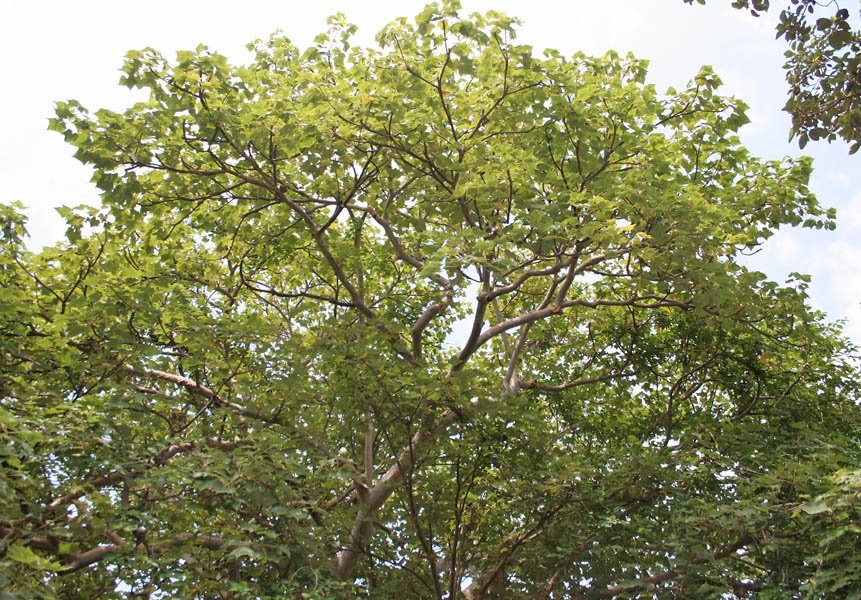 Sterculia urens- The Ghost Tree, Gulu, Kadaya, Karaya, Indian-tragacanth, gum karaya, Indian gum tragacanth • Hindi: Kulu कुलु • Kannada: Kurdu • Konkani: Pandruk • Tamil: Kavalam Tam • Malayalam: Paravakka • Telugu: Kavili • Marathi: Sardol • Rajasthani: Katila • Assamese: Odla • Gujarati: Kogdol • Oriya: Gudalo- in Keesara, Rangareddy district, Andhra Pradesh, India.